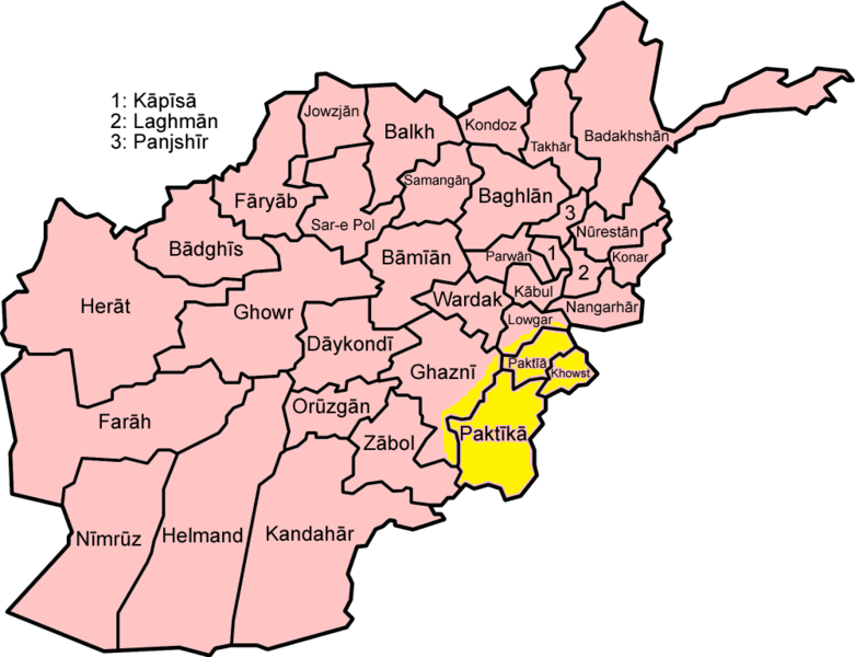 This is the provincial map of Afghanistan with the Loya Paktia region shaded yellow.